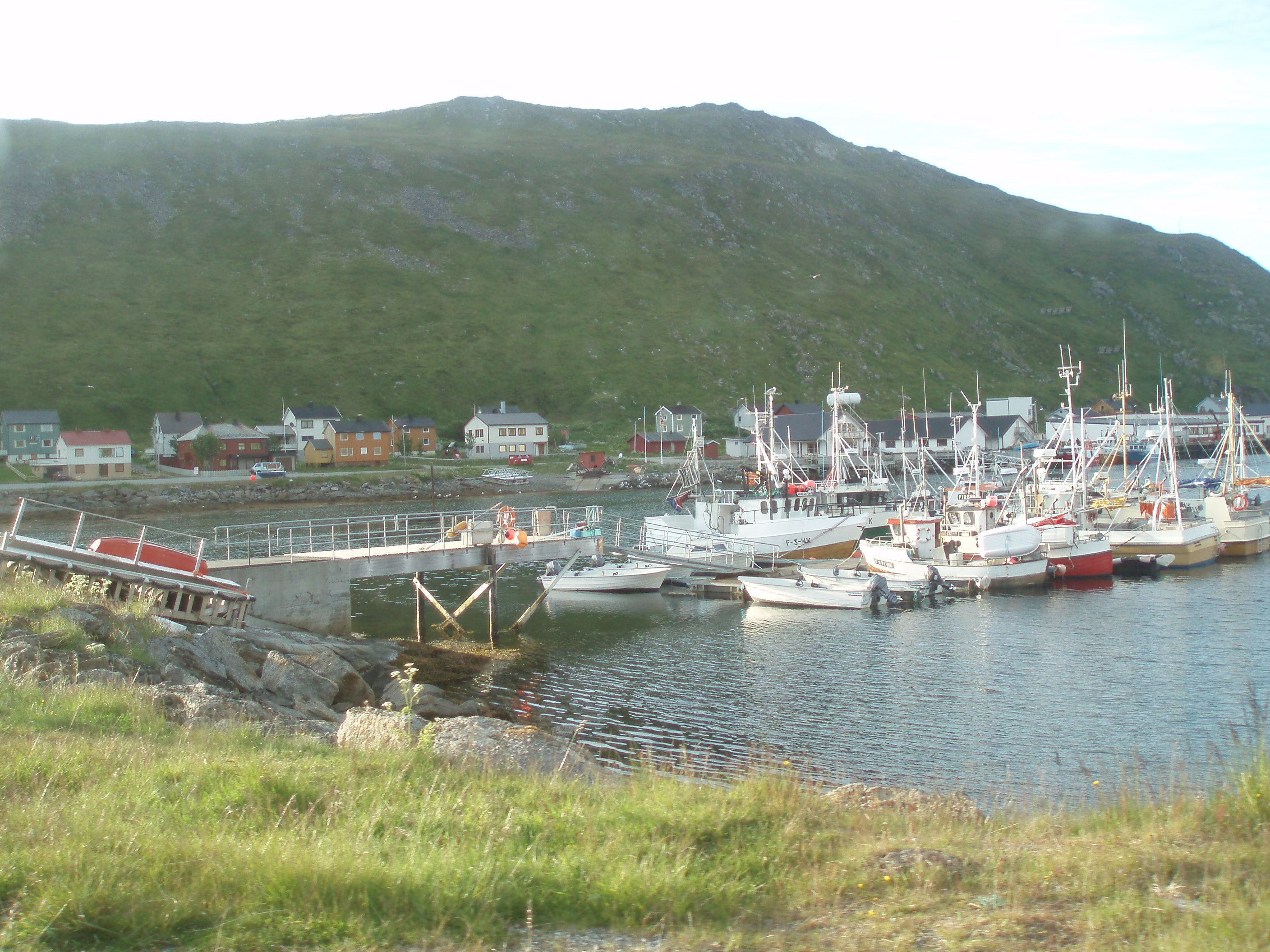 Skarsvåg, just east of North Cape